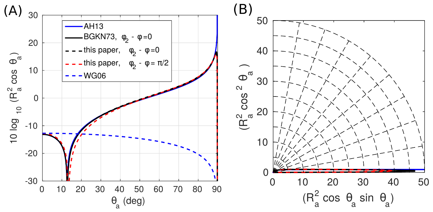 Patterns of acoustic pressure variance as a function of the elevation angle θa for an ocean wave period of 10 s, given by the different theories without ocean bottom, in cartesian (A), and polar (B) representation. Note that when the radiated power is considered, these patterns must be multiplied by sin θa before integration over θa , as given by eq. (52). In general, as given by eq. (30) the radiated power is also a function of the relative azimuth of the first ocean wave train φ and the azimuth of the radiated acoustic power φ2 . The same figure is shown in Brekhovskikh et al. (1973, here BGKN73). The WG06 curve corresponds to Waxler and Gilbert (2006), and "this paper" is De Carlo et al. (2020 ) for more details.